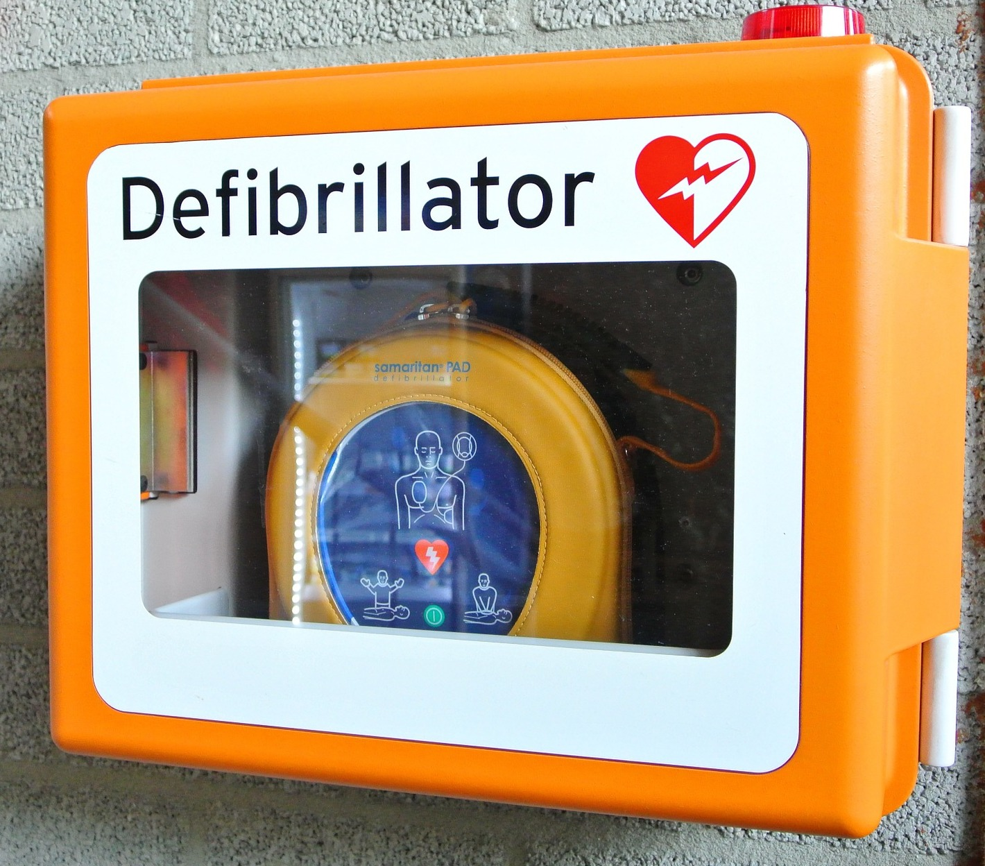 AED, Defibrillator